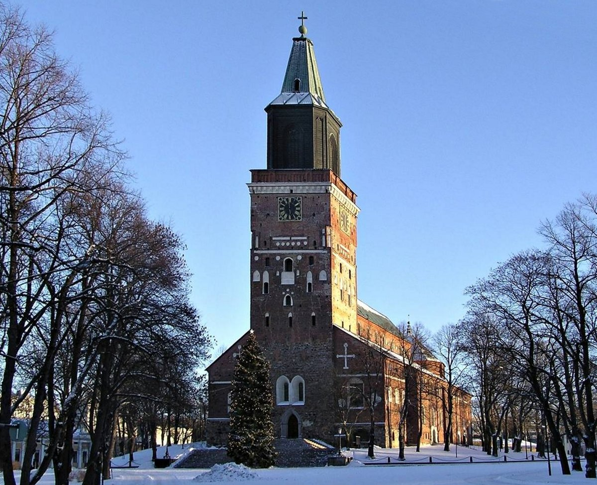 Cathedral of Turku on Dec 26, 2004.